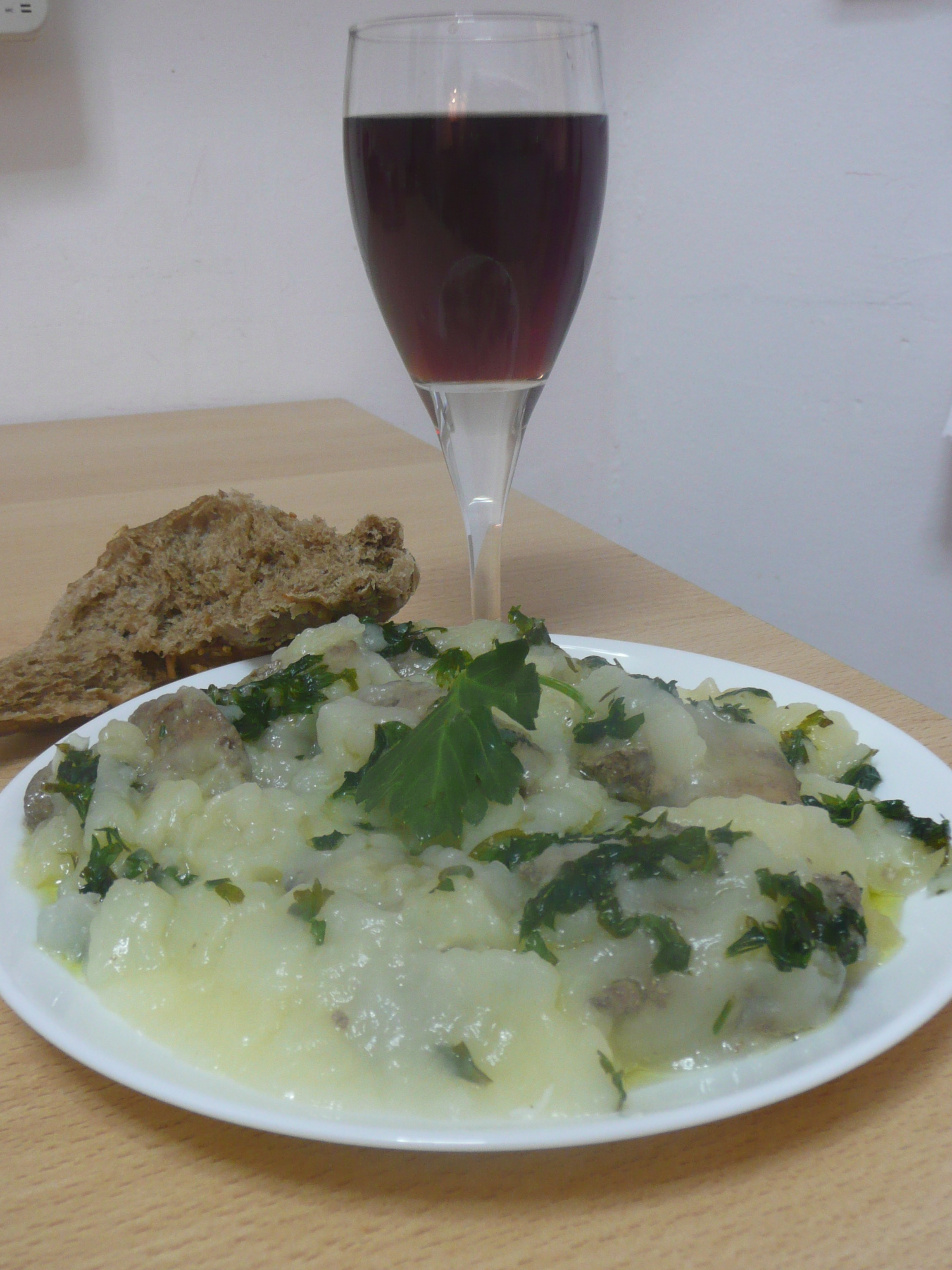 Agristada a sepharadi dish from the balkans